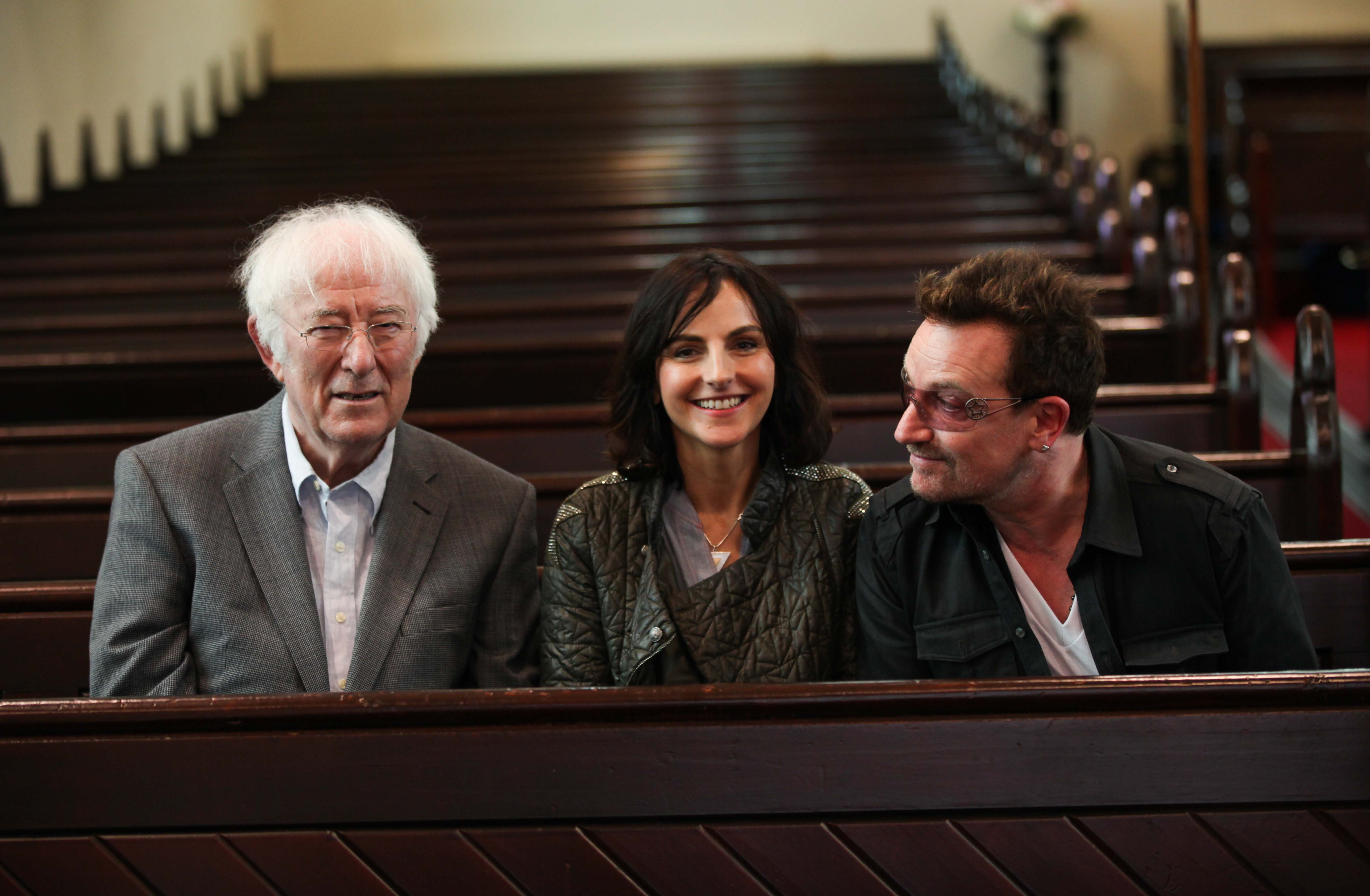 NO REPRO FEE: Sunday 17th June 2012: Pictured in Seamus Heany's reading at St Patrick's Church of Ireland as part of the Dalkey Book Festival was poet Seamus Heaney, Dalkey Book Festival director Sian Smyth and Bono. The 3rd annual Dalkey Book Festival was bigger and better than ever and kicked off on Friday the 15th June. For three days, books of every kind was celebrated and brought to life by their authors. This year, the line up included local writers and those who have a particular affection for Dalkey such as Maeve Binchy, Joseph O'Connor, Carlo Gebler, Dermot Healy, Martina Devlin and John Waters. Festival directors, David McWilliams and Sian Smyth worked with the support of a superb team of volunteers and the Dalkey Business Group to ensure the festival's success. Picture Conor McCabe Photography.